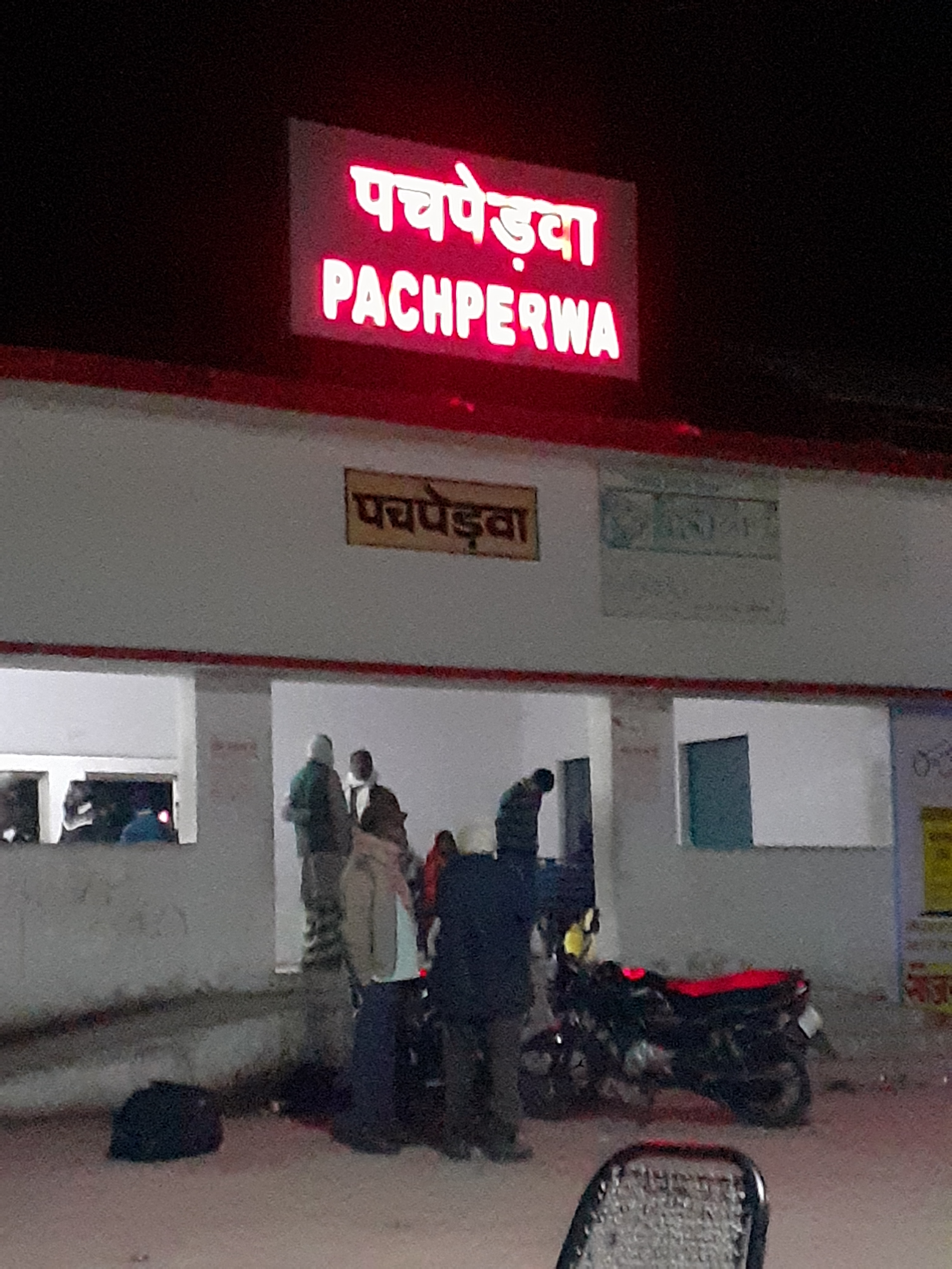 This shows the name